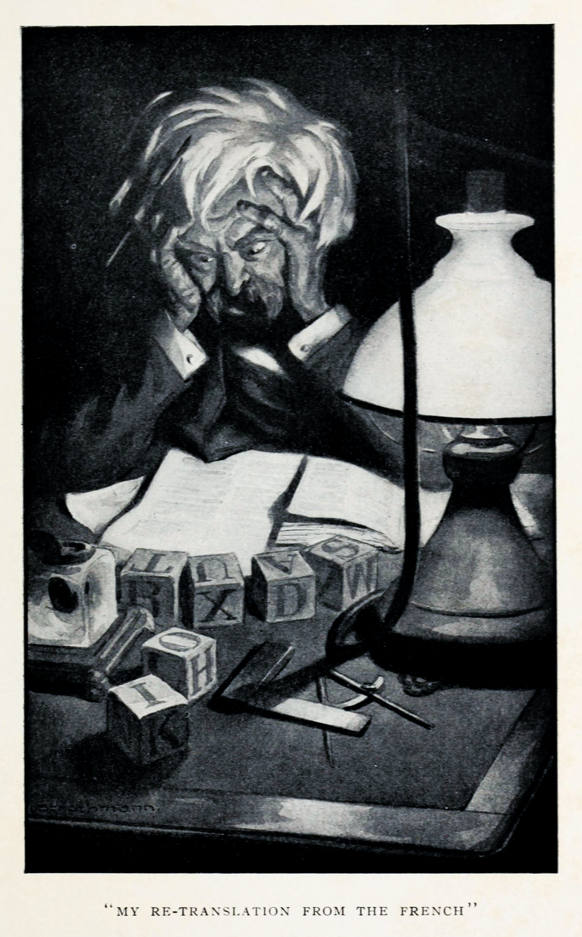 Illustration of The jumping frog : in English, then in French, then clawed back into a civilized language once more by patient, unremunerated toil.